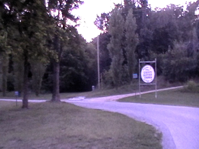 A picture of the area past the entrance to Dutch Mills by Highway 59.